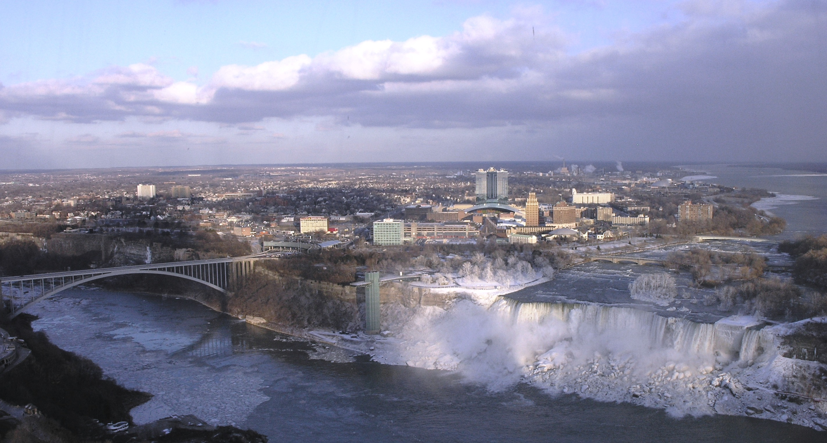 Taken by Daniel Mayer in late February 2006.